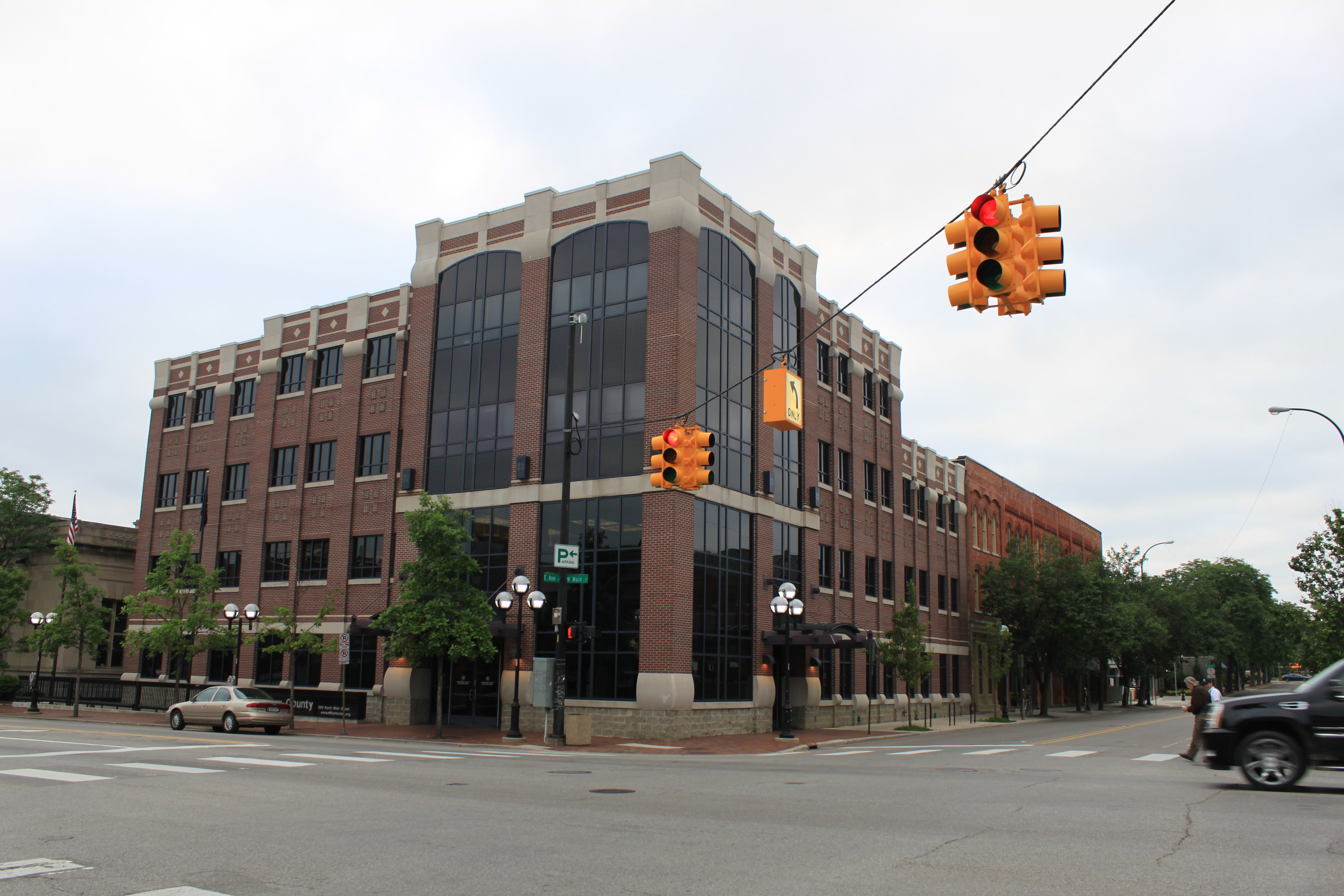 Washtenaw County Michigan downtown Ann Arbor campus